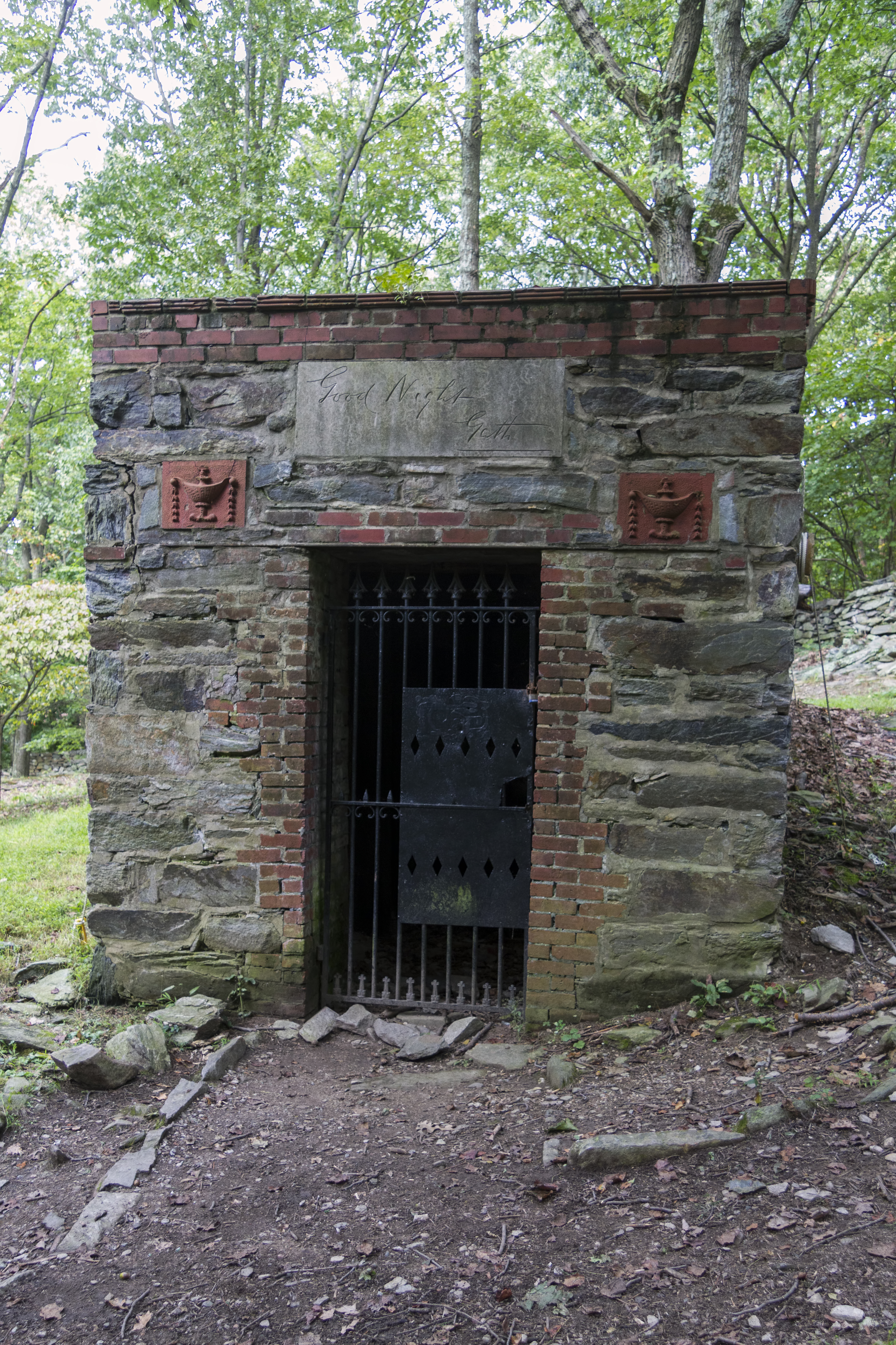 The unused mausoleum of George Alfred Townsend ("Gath") in Gathland State Park, Maryland, USA, part of the Crampton's Gap Historic District.